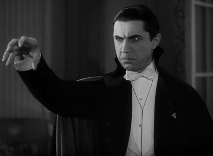 A screenshot from Dracula